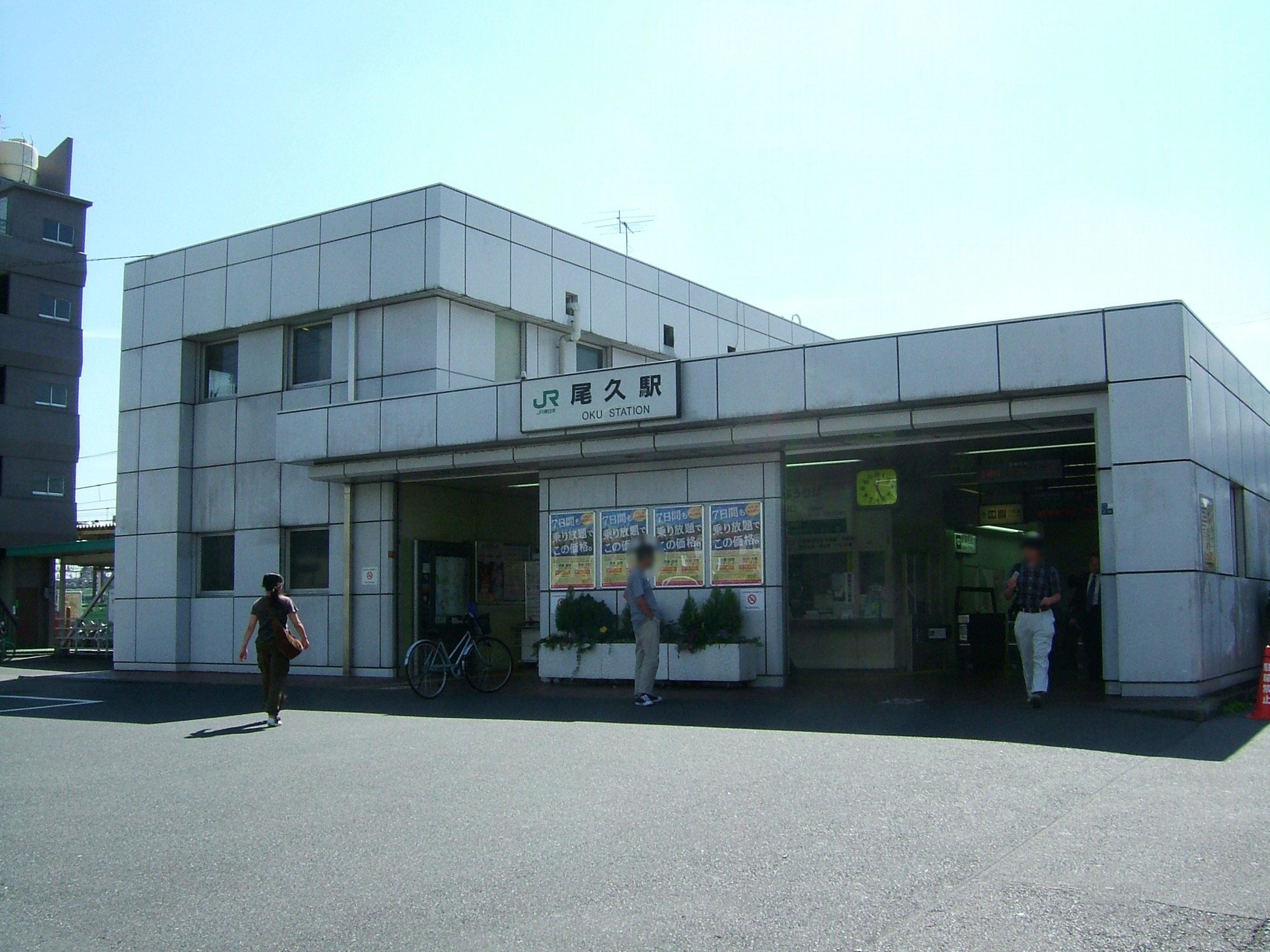 Oku Station (East Japan Railway Tohoku Main Line)